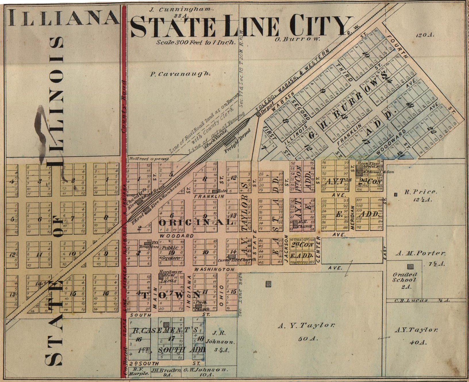 A map of the town of State Line City, Indiana